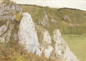 The cliffs at the Lesse (1878)